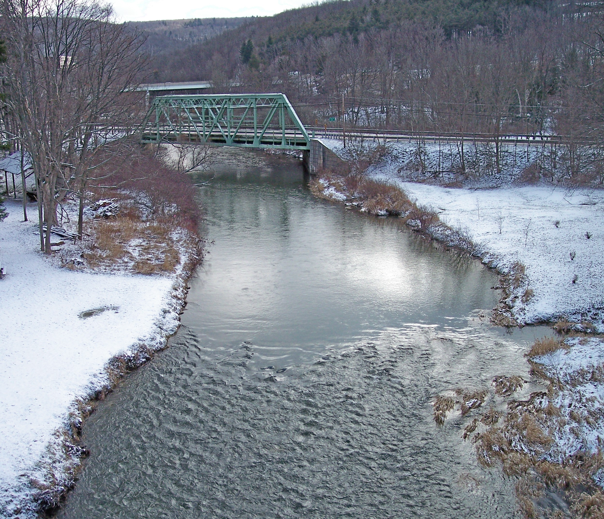 The Casselman River as viewed upstream from Casselman River Bridge State Park near Grantsville, Maryland. The bridge carries the National Pike (Alternate U.S. Route 40). Interstate 68 is visible in the distance.